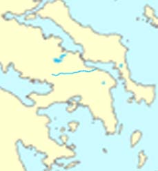 Asopos River